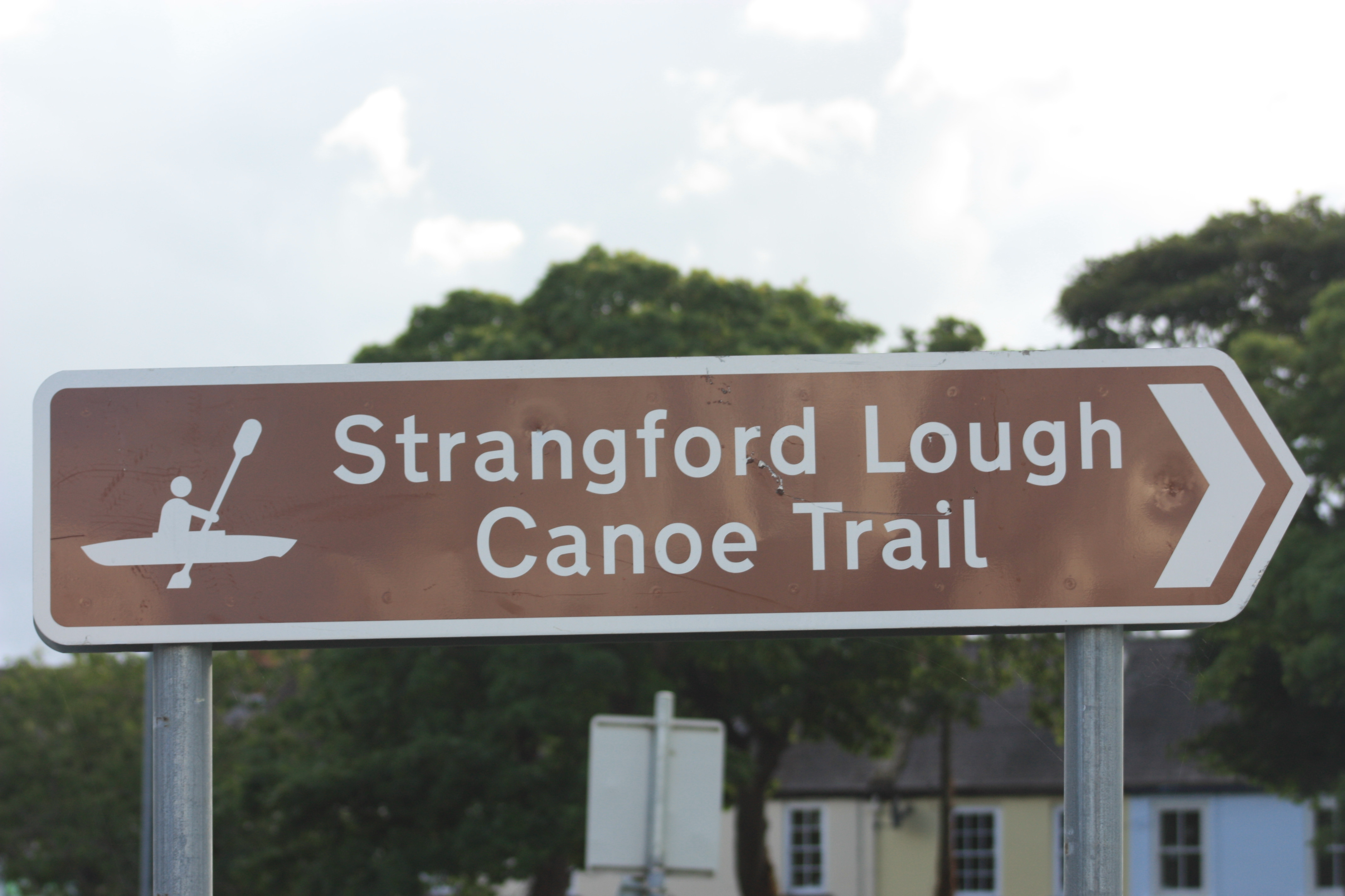 Sign in Strangford, County Down, Northern Ireland, August 2009